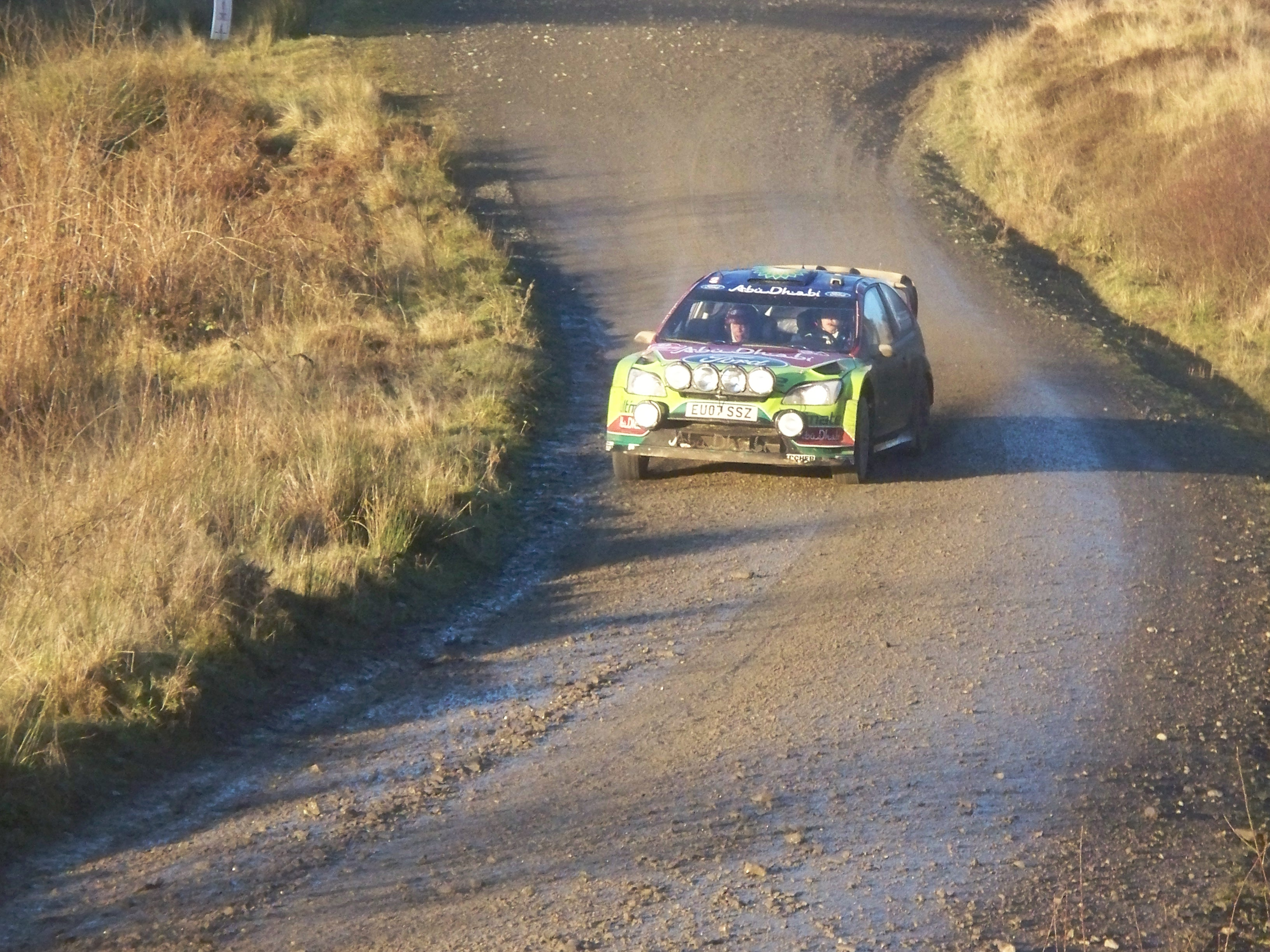 Mikko Hirvonen during the Halfway stage of Wales Rally GB 2008